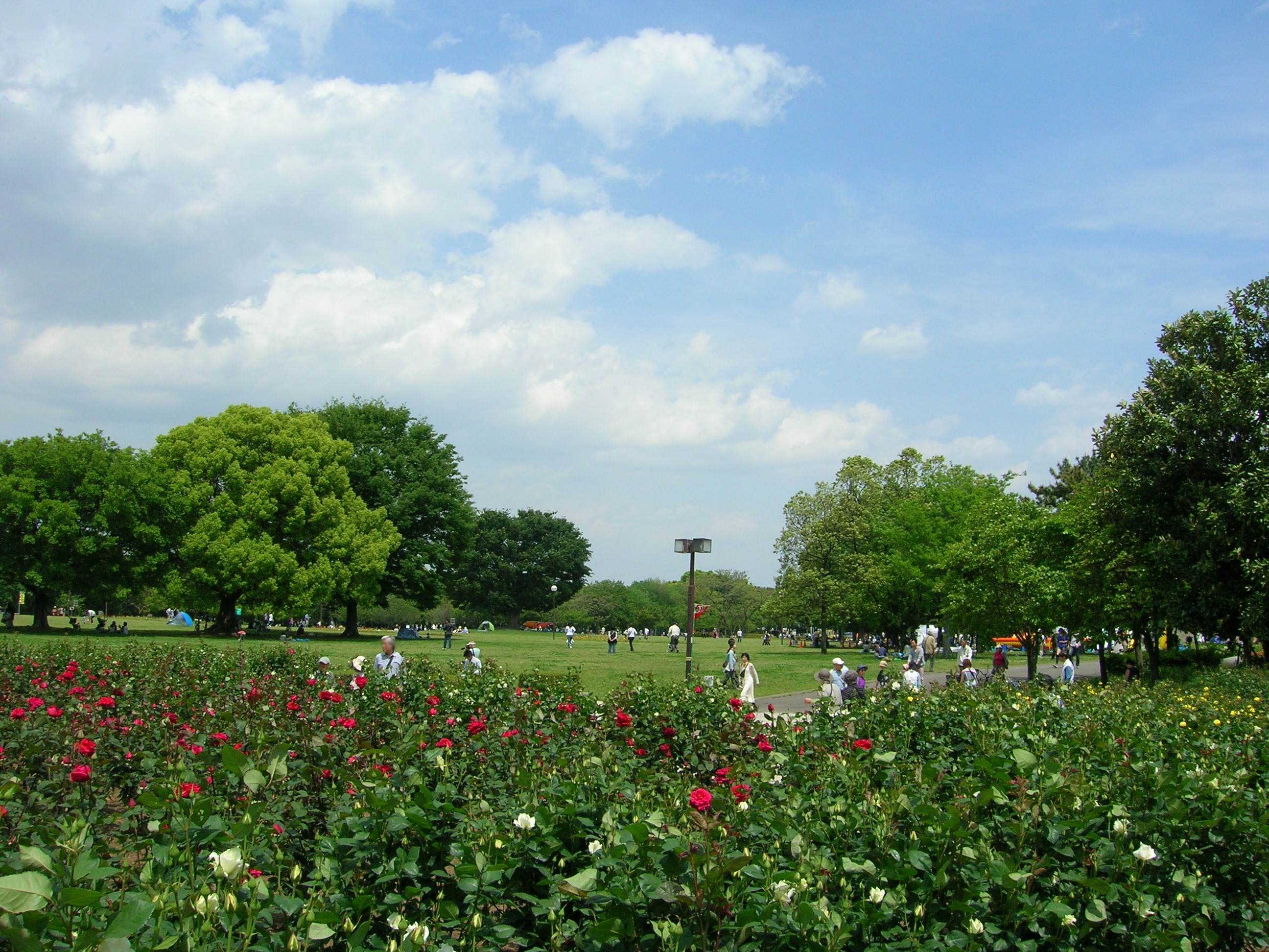 Shonai ryokuchi (Shonai green). Loc: Nagoya city, Aichi Prefecture, Japan. 庄内緑地 撮影場所 愛知県名古屋市西区